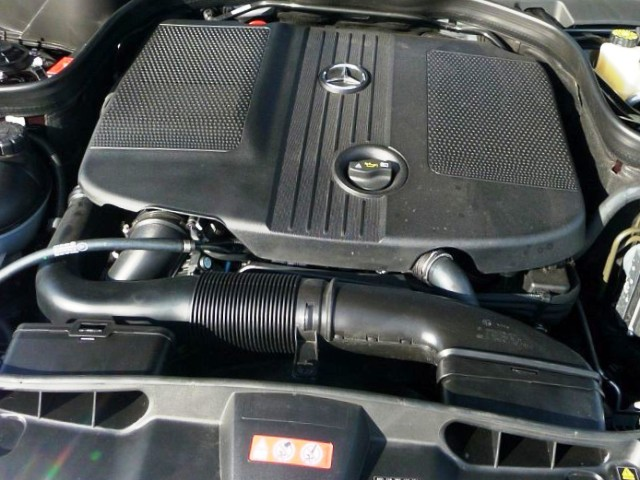 OM 651 DE 22 LA diesel engine